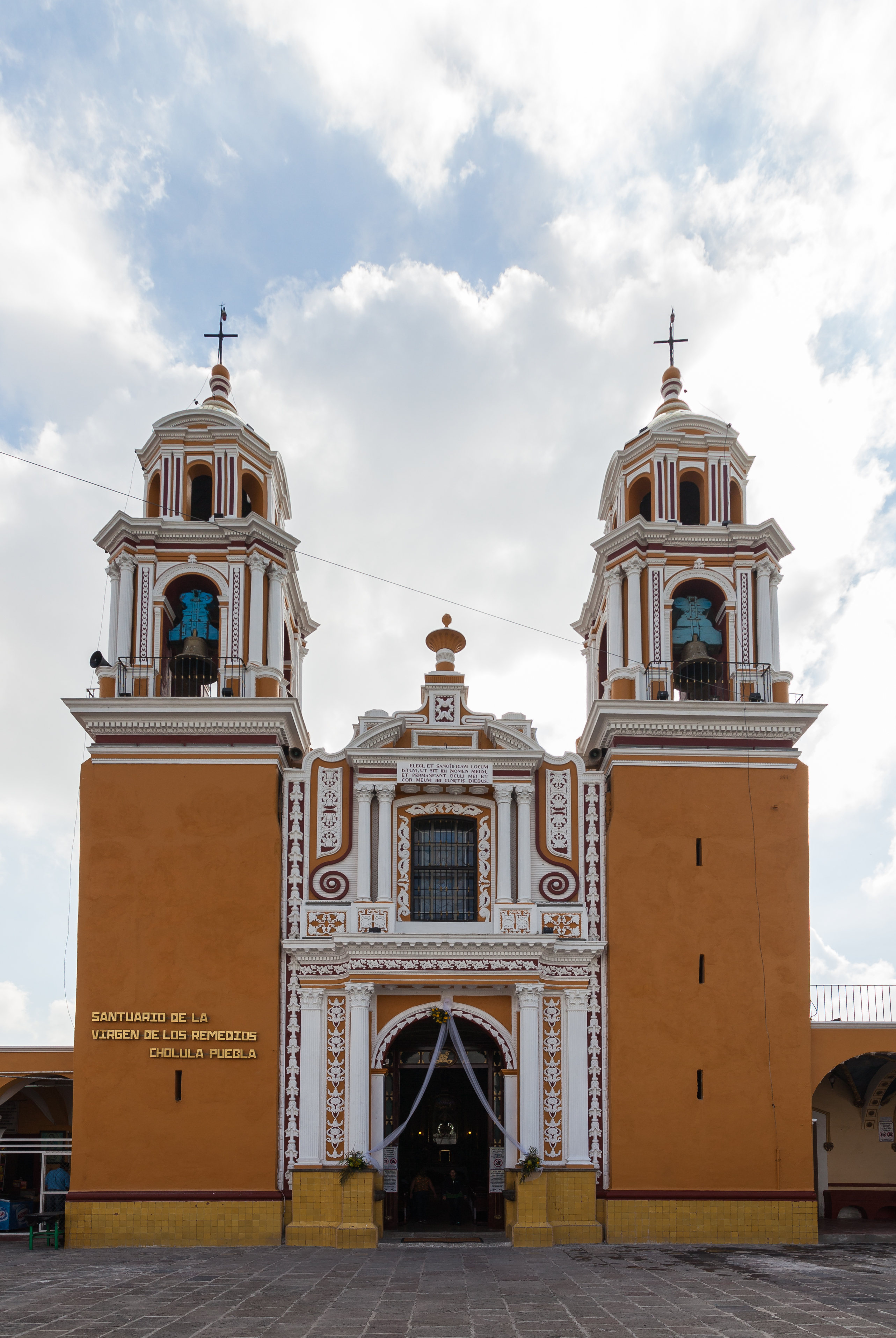 Church of Nuestra Señora de los Remedios, Cholula, Mexico